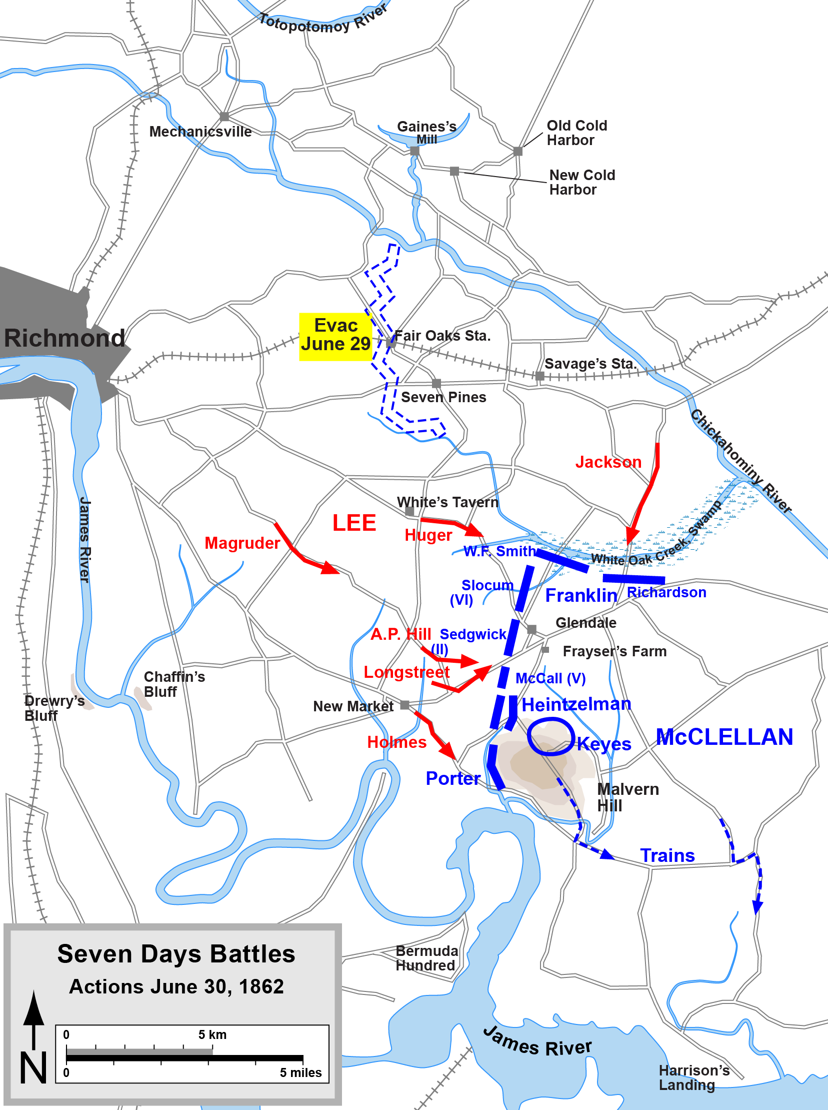 Map of the Seven Days Battles of the American Civil War, showing the battle of Glendale. Drawn in Adobe Illustrator CS5 by Hal Jespersen. Graphic source file is available at